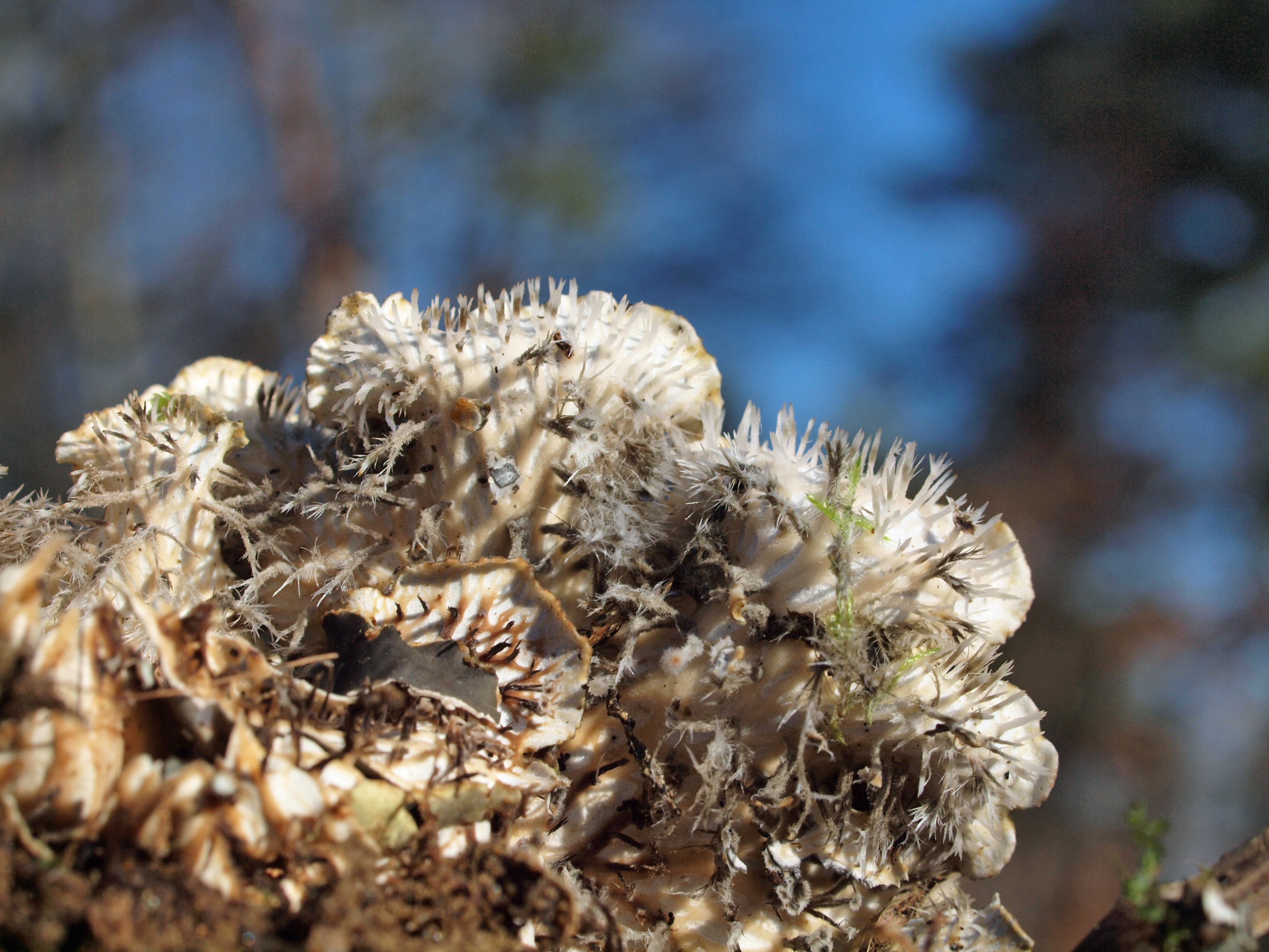 Lichen Peltigera praetextata, Austria, Styria, Unterlamm